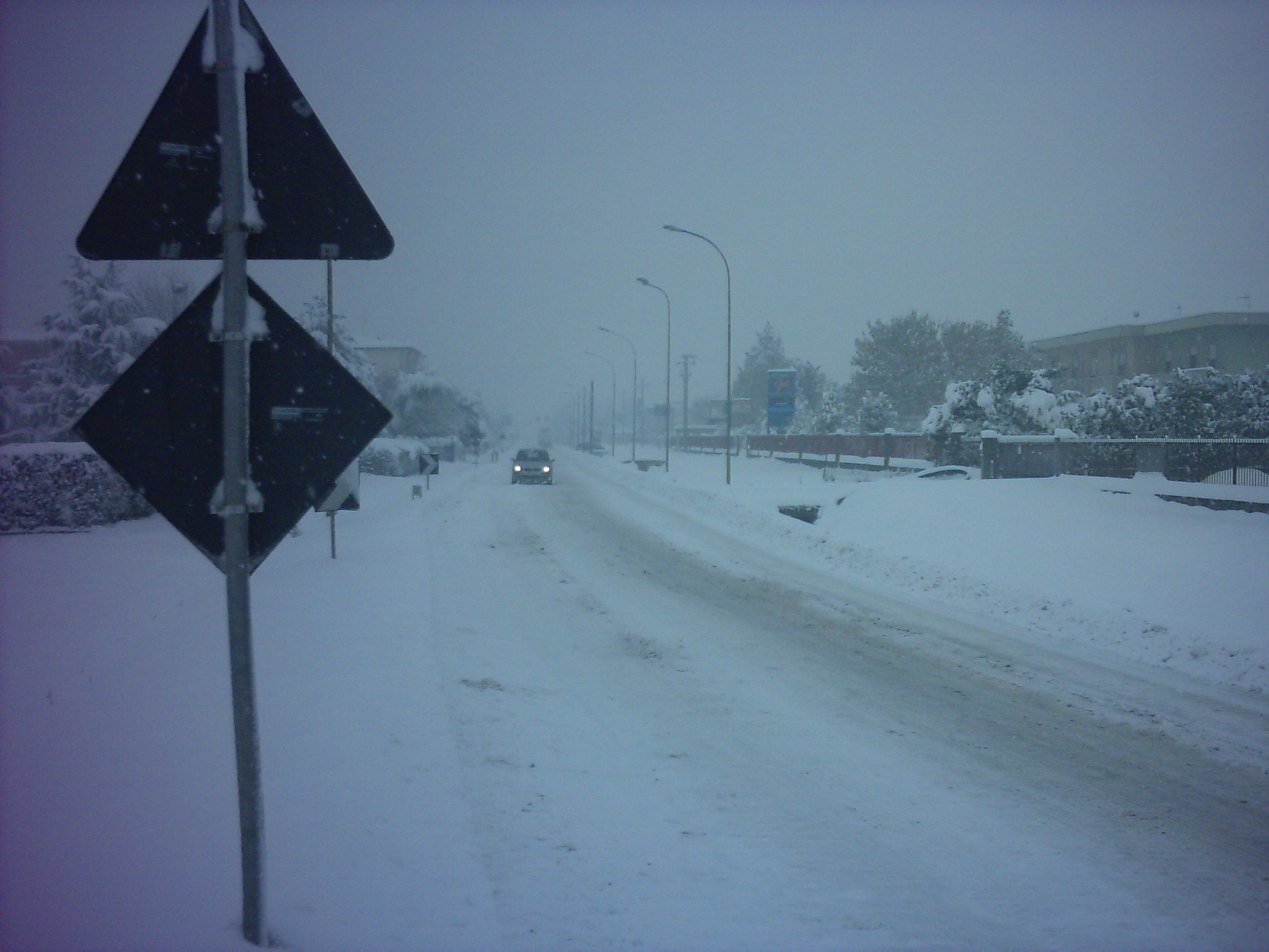 The italian road SS498 Soncinese when passing through Castelverde, during a major snowfall in January 2006